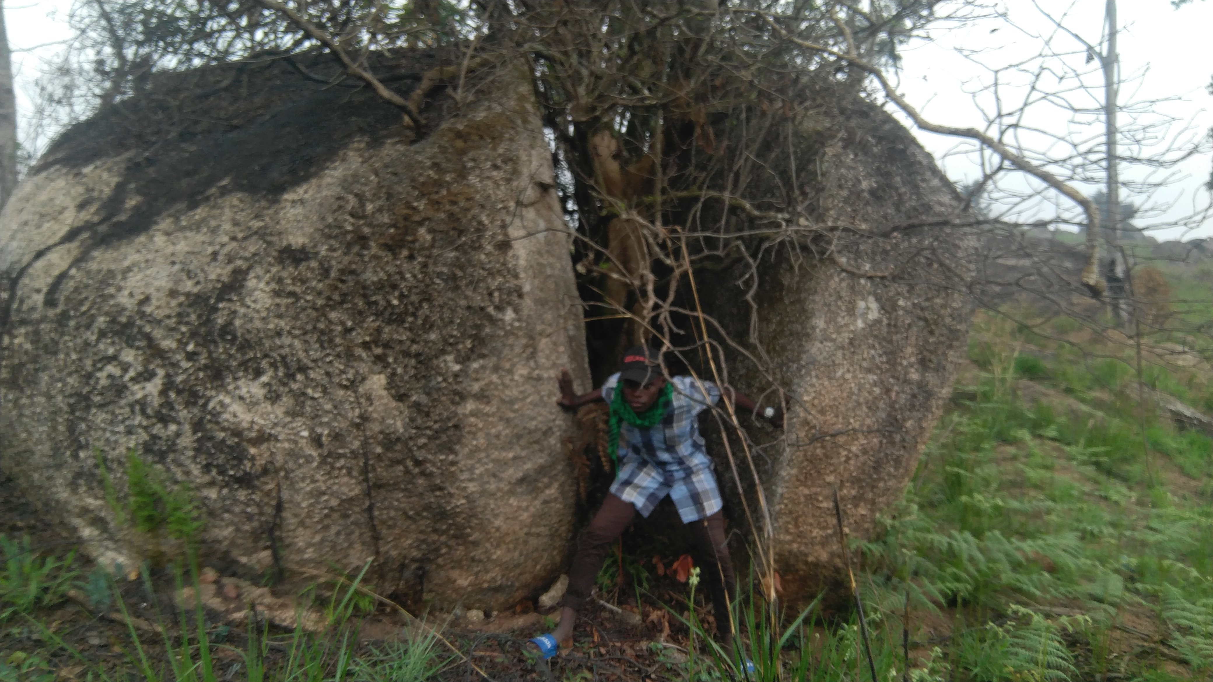 This is an image with the theme "Play" from: Cameroon